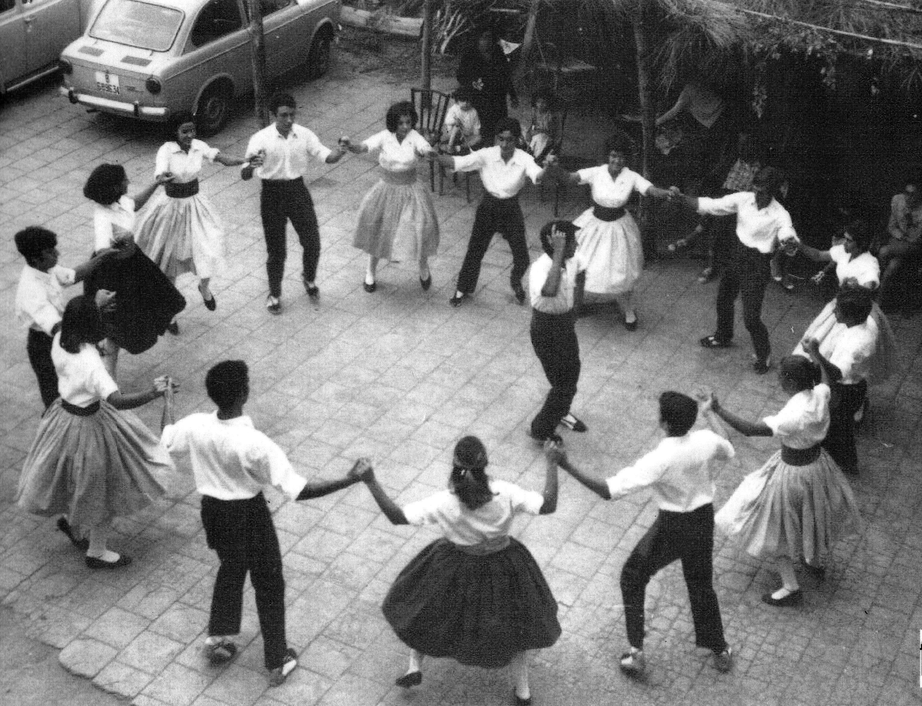 First performance by the Esbart Sant Jordi in Barcelona, ​​in 1970.